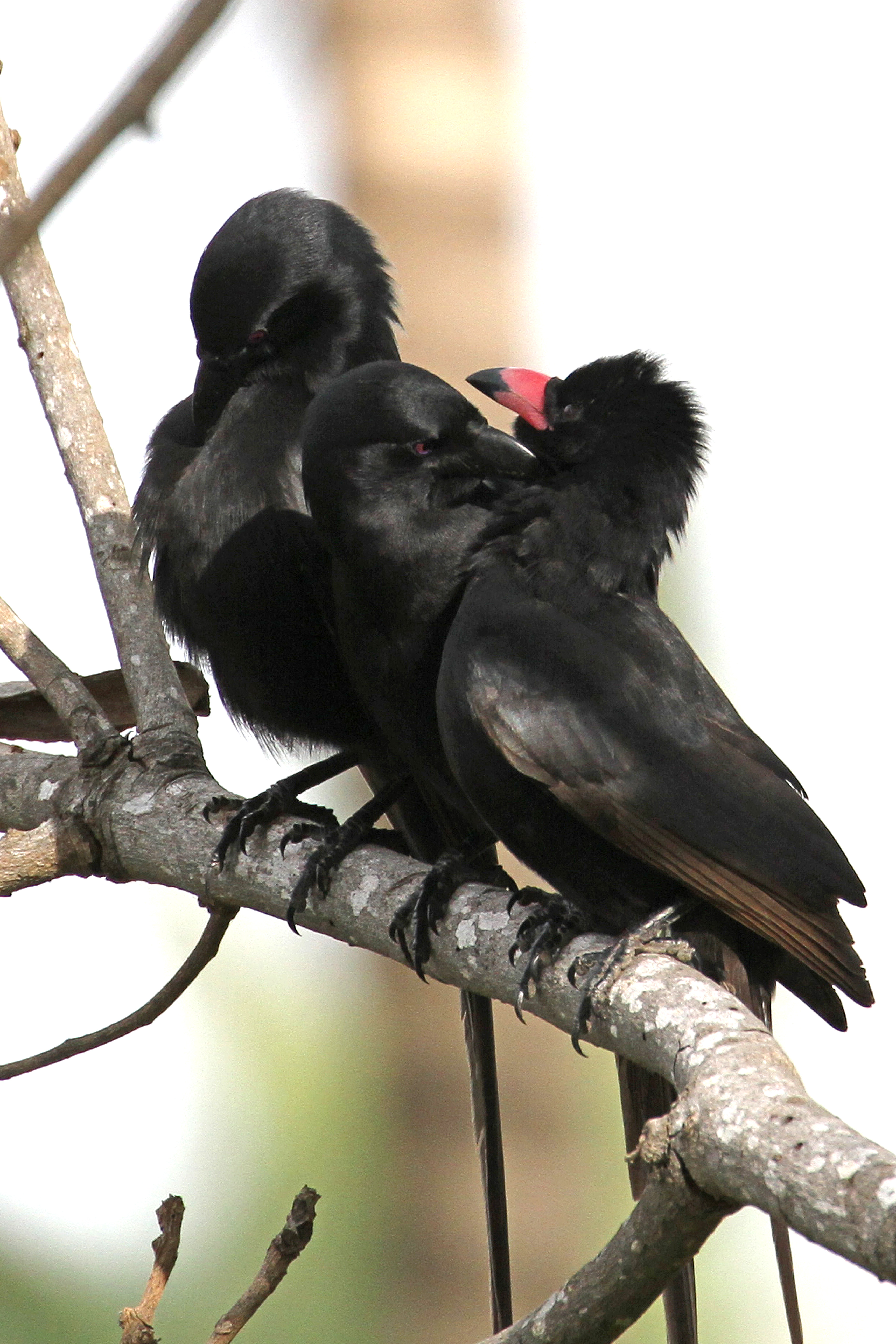 A pair of Piapiacs (Ptilostomus afer) with a juvenile. Kololi, the Gambia.